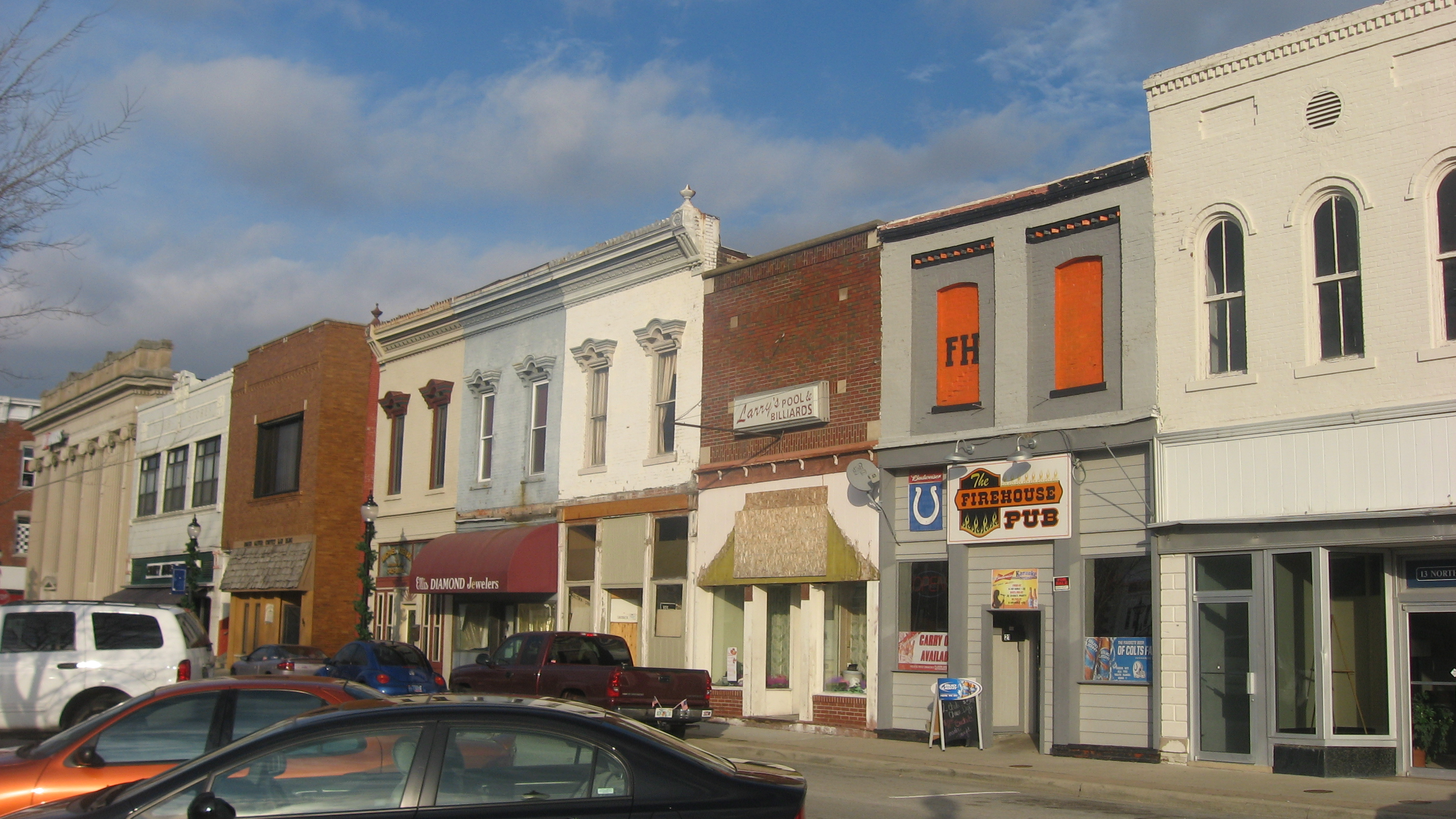 Buildings on the eastern side of Courthouse Square in downtown Martinsville, Indiana, United States. This block is part of the Martinsville Commercial Historic District, a historic district that is listed on the National Register of Historic Places.